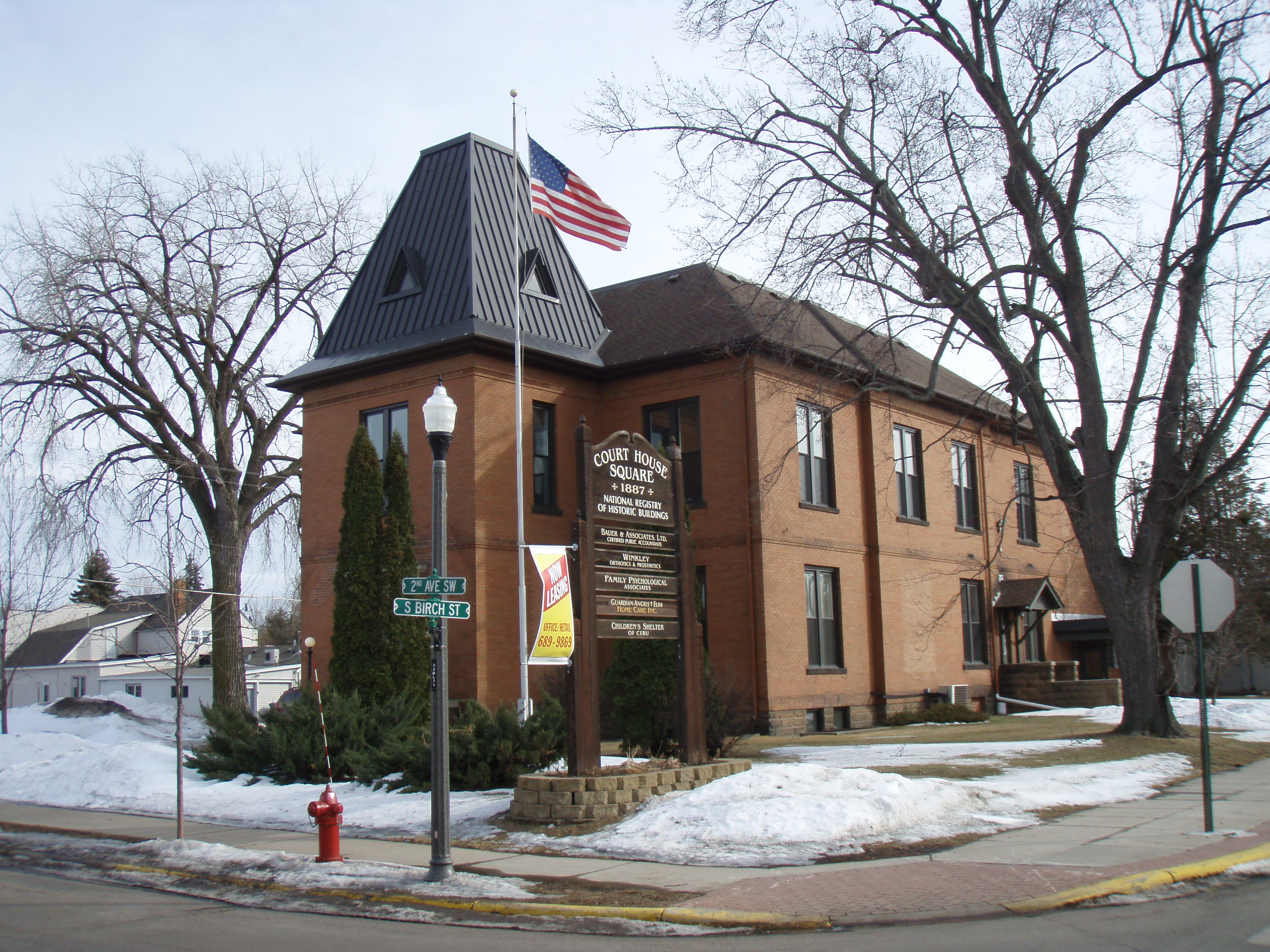 Isanti County Courthouse in Cambridge, Minnesota, listed on the National Register of Historic Places.